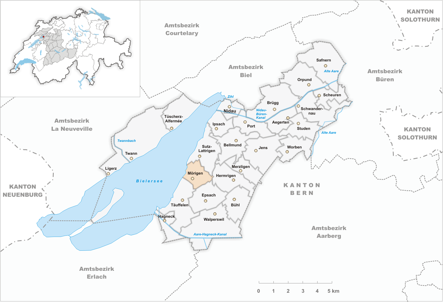 Municipality Mörigen